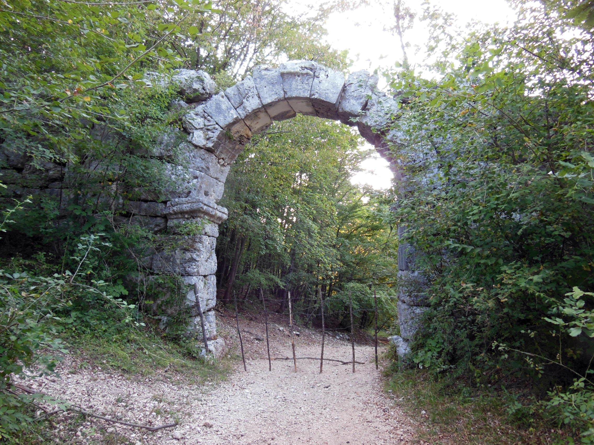 Italy, Latium, province of Frosinone, between the municipalities of Guarcino and Trevi nel Lazio, arc of Trevi, ancient roman repubblican arc